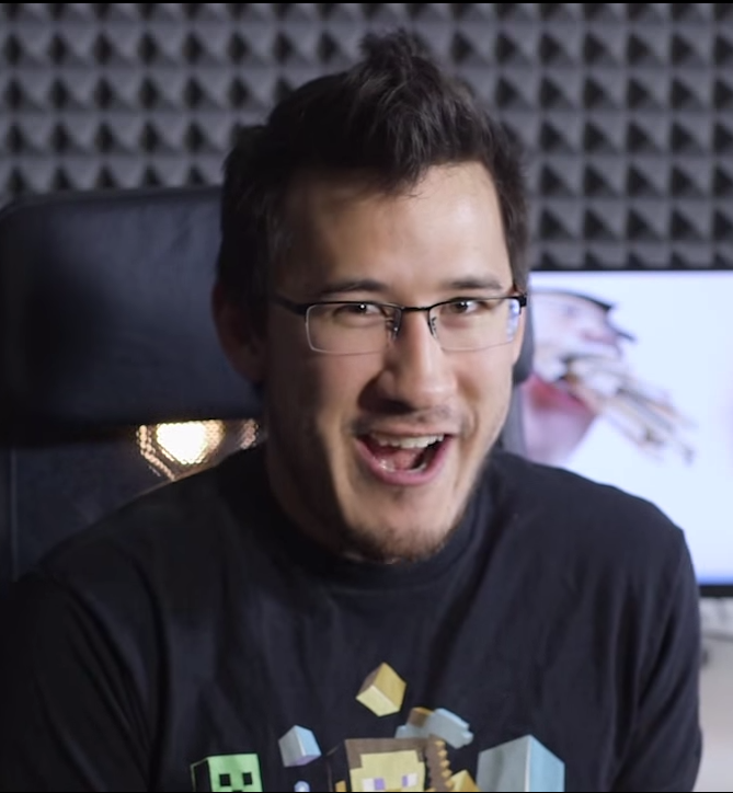 Markiplier's "Happy 2 year anniversary"-video on YouTube.